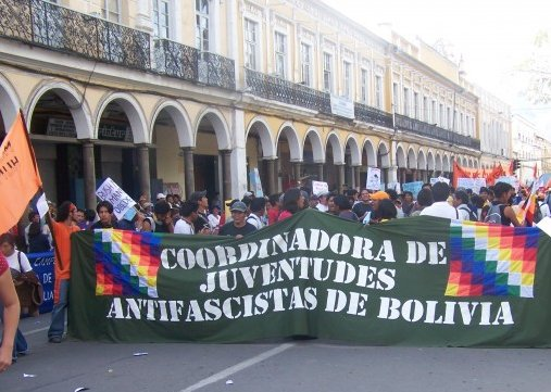 Bolivia. Pro Indigenous March. Antifacists Youth of Bolivia